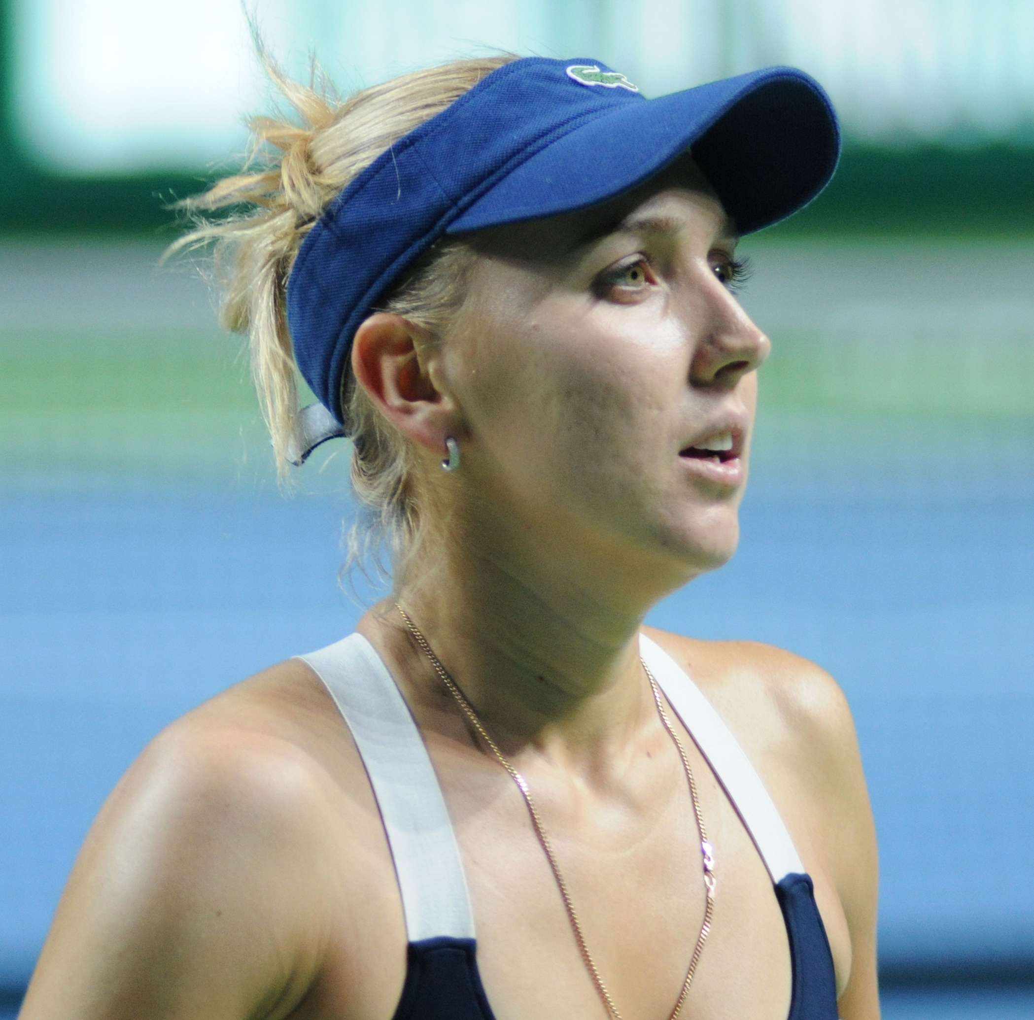 Elena Vesnina at the 2014 Kremlin Cup